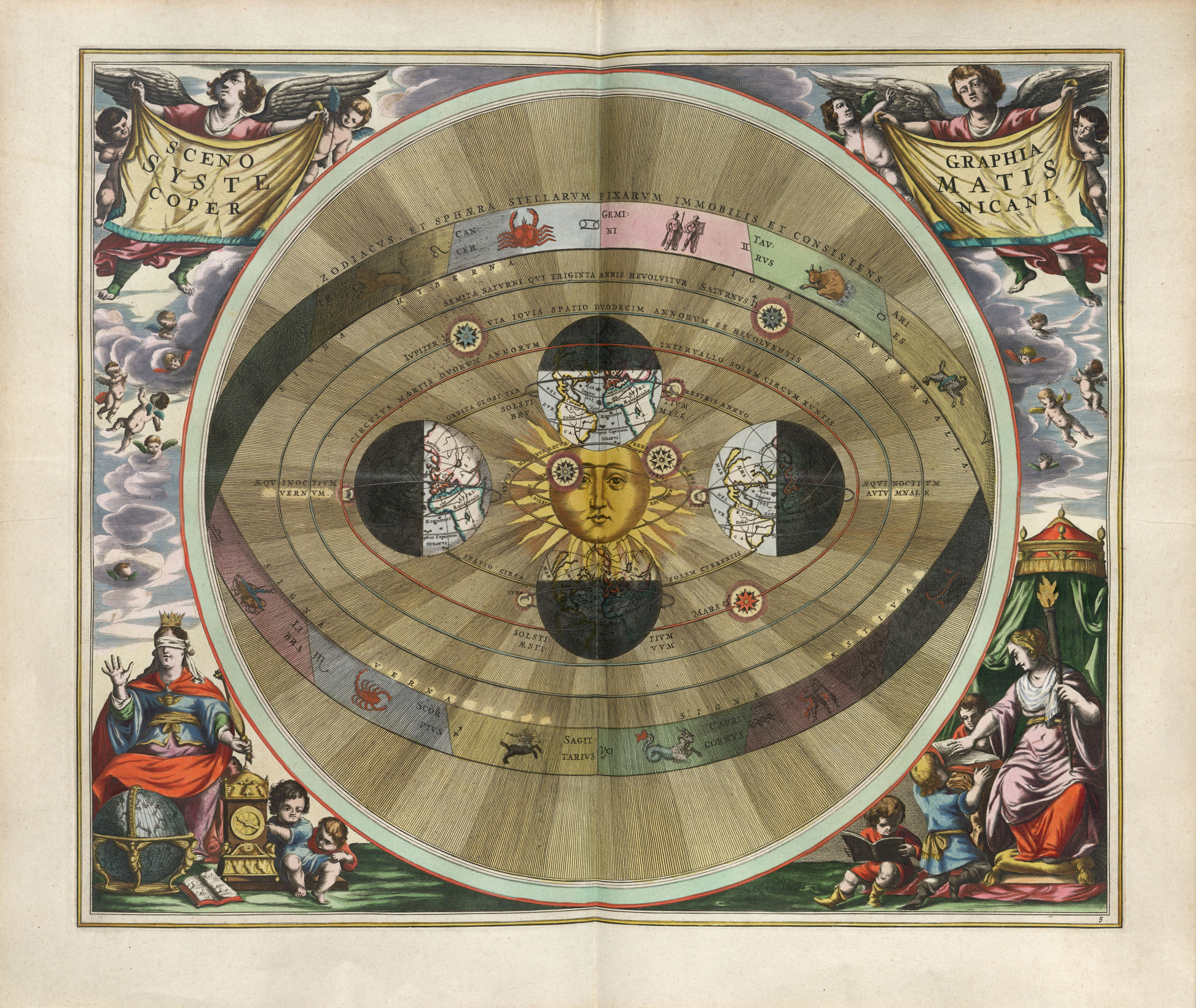 Andreas Cellarius: Harmonia macrocosmica seu atlas universalis et novus, totius universi creati cosmographiam generalem, et novam exhibens. Plate 5. SCENOGRAPHIA SYSTEMATIS COPERNICANI - Scenography of the Copernican world system.